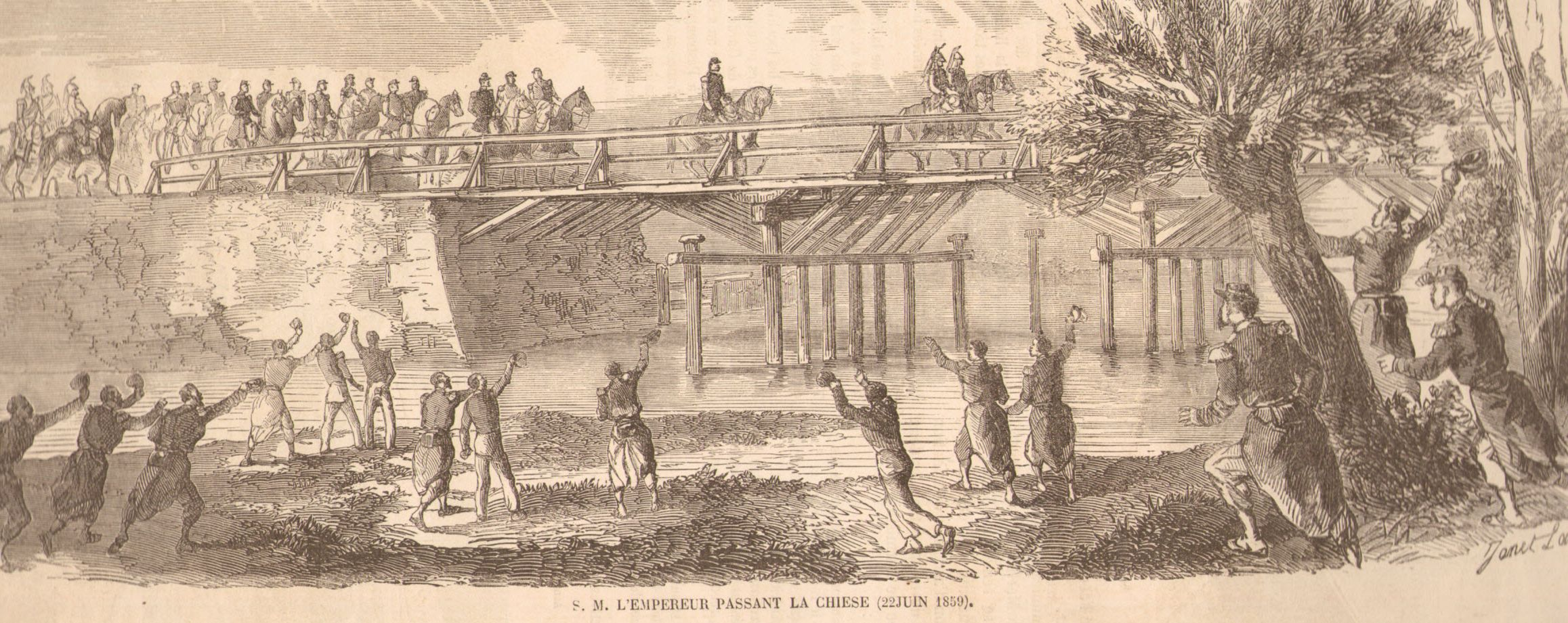 Napoleon III crossing the river Chiese June 22, 1859.